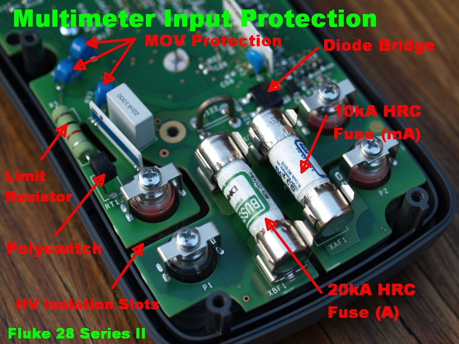 An example of CAT-IV multimeter input protection on the Fluke 28 Series II Multimeter. Showing the HRC fuses, high voltage isolation slots, Polyswitch, MOV's, diode bridge (across the fuse), and series limit resistor.